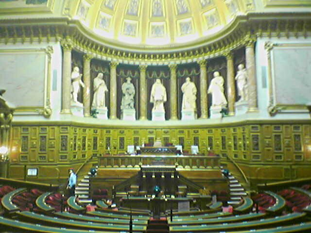 French Senate theater. (Note: not an amphitheatre!)